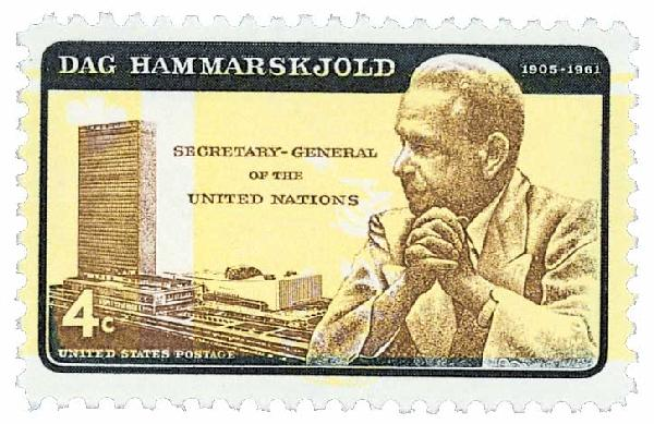 Postage stamp of the United States with 4c for Dag Hammarskjold memorial with inverted yellow, shift down, 1962 Nov. 16.